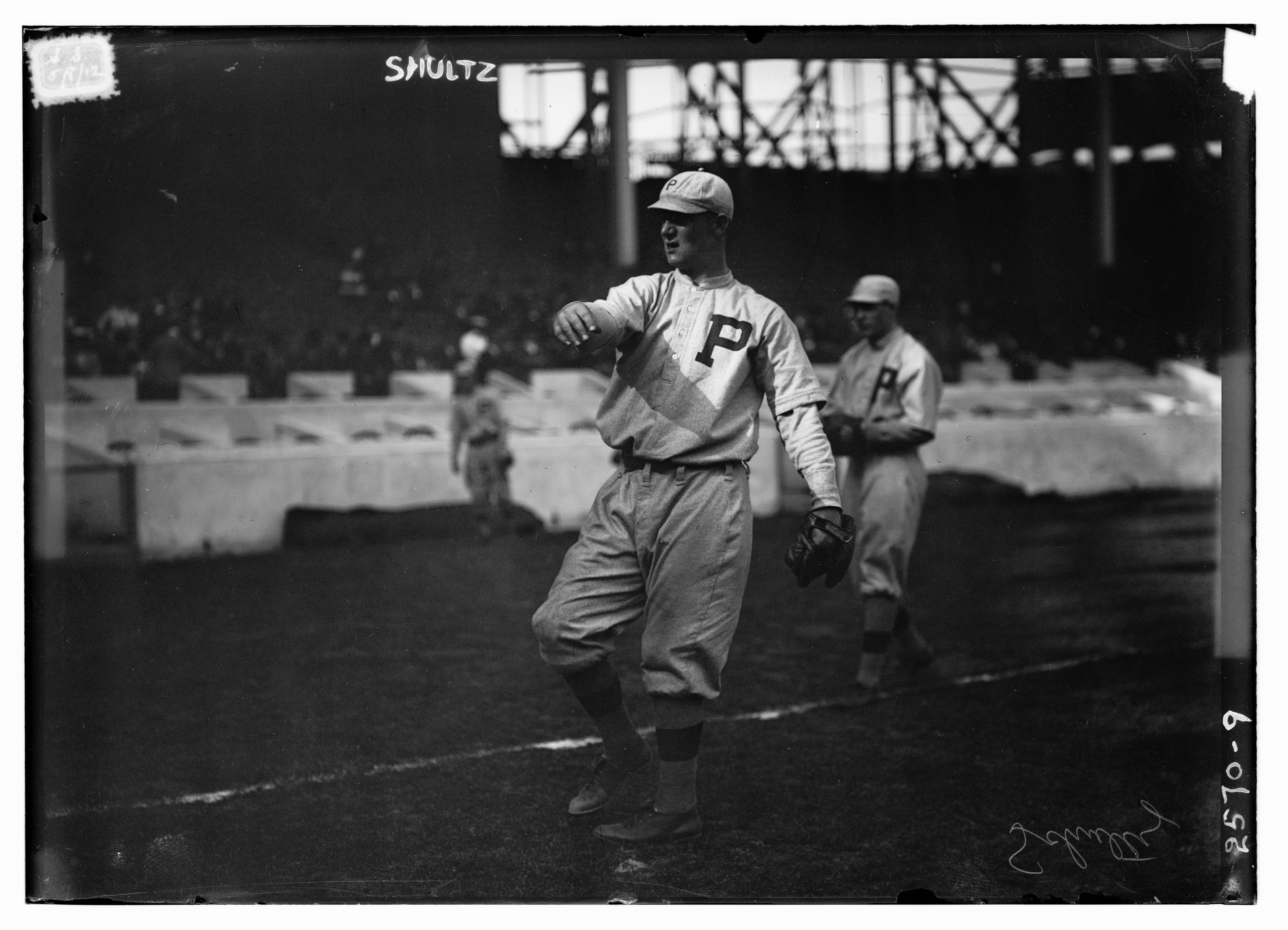 Title: Wallace "Toots" Shultz, Philadelphia NL (baseball) Abstract/medium: 1 negative : glass ; 5 x 7 in. or smaller.